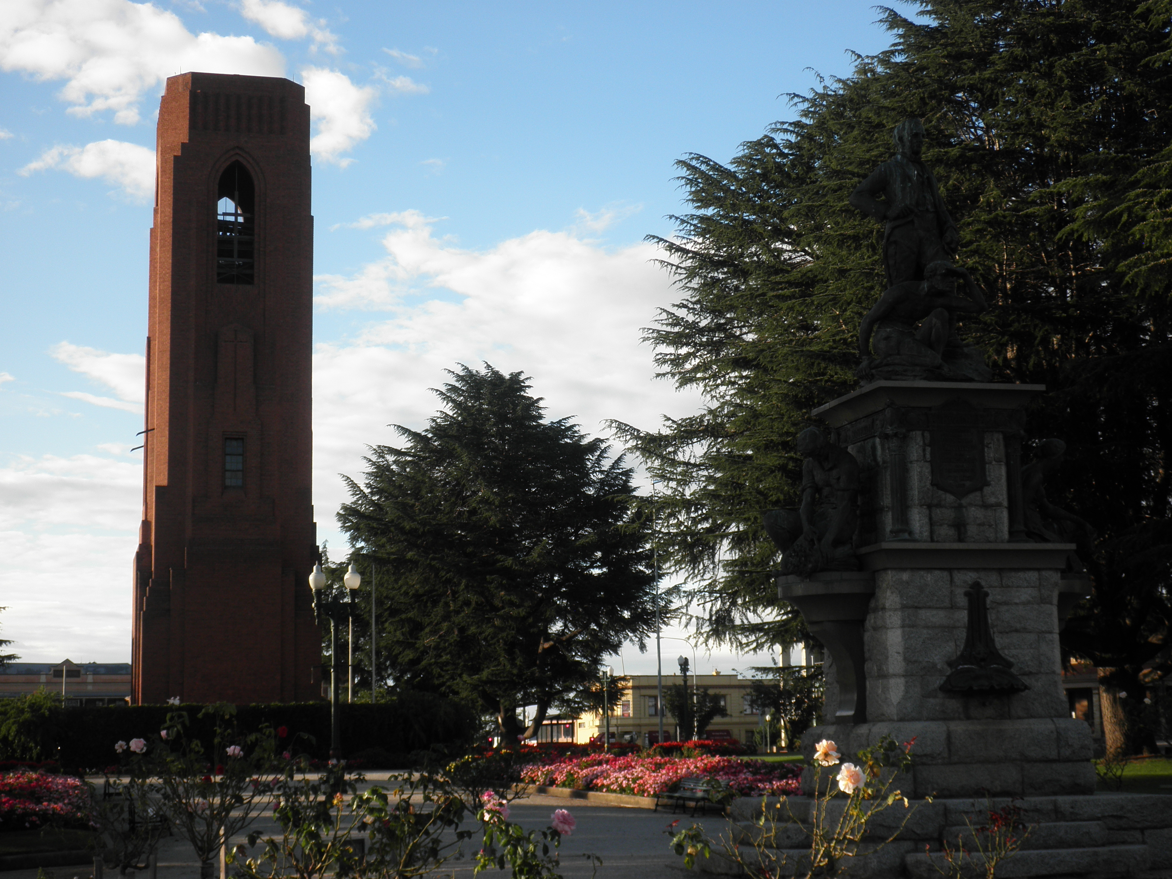 Kings Parade Park showing Carillon Memorial in background and Evans Memorial in foreground,taken April 2011 at Bathurst, New South Wales, Australia